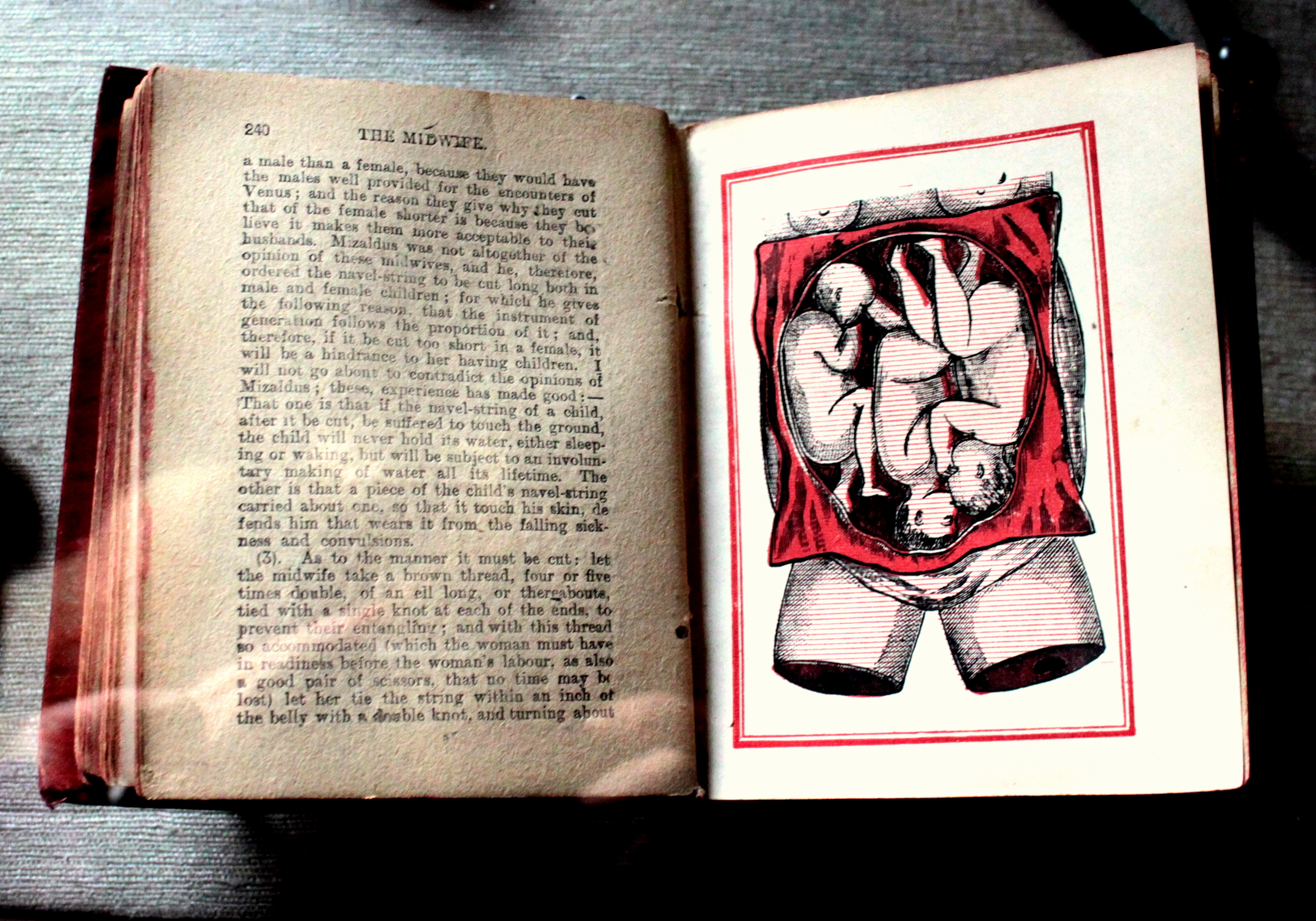 This handbook was used as "pocket-book\" from which pages were removed for easier reference. This cheaply produced publication was commonly printed and domestically owned from the 18th century onward, originally issued for actual midwife use. In the nineteenth century the quality of publishing improved and the book size shrunk to a pocket size. Title on spine impressed in gold: 'ARISTOTLE'S WORKS - COLOURED PAGES - NEW & REVISED EDITION WITH ADDITIONAL PLATES". Gold is worn, lines and cherub image under text. Collection ID: 1999:159 This photo was taken as part of Britain Loves Wikipedia in February 2010 by Jenny O'Donnell.